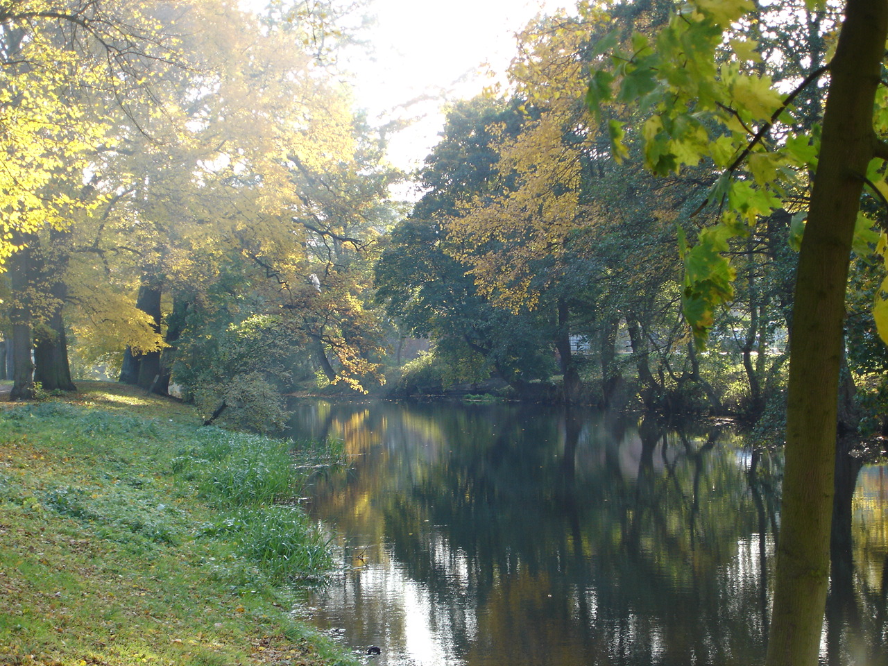 Foto by Politykstargard